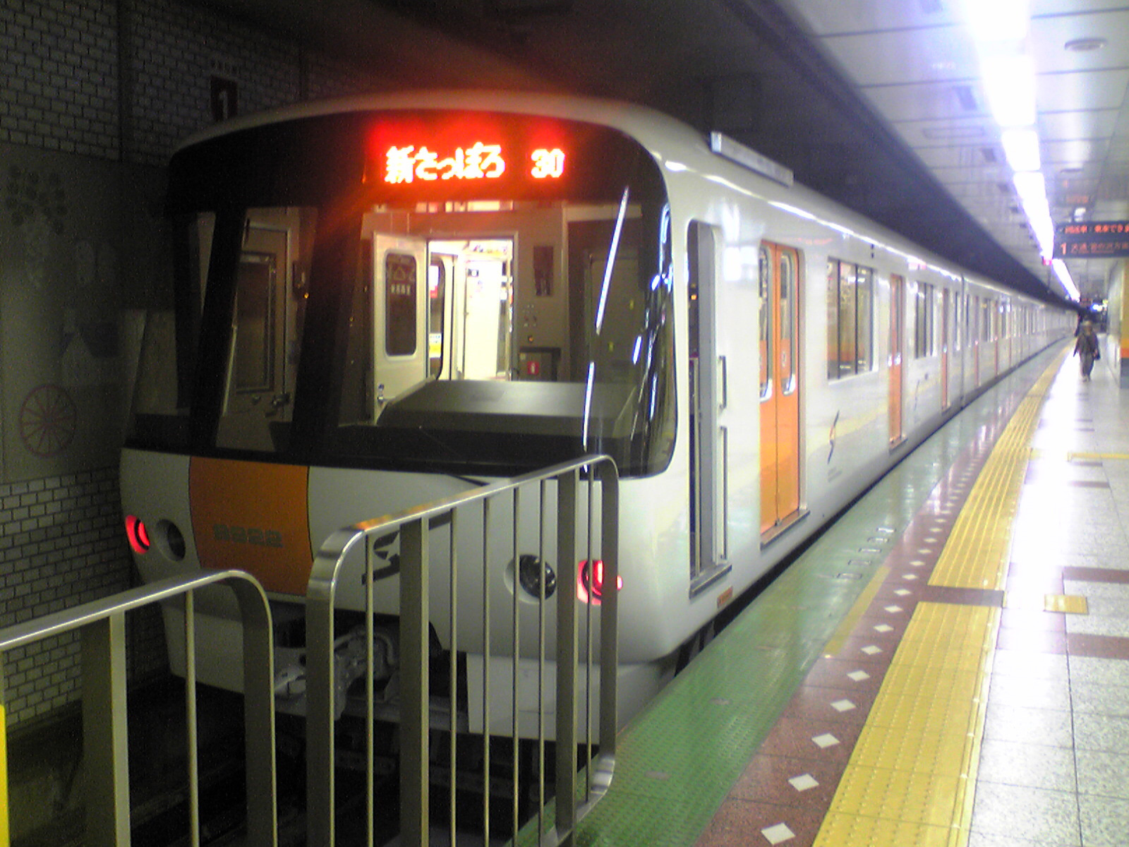 Sapporo City Transportation Bureau 8000-Type Railcar, Tōhō line, Sapporo-city, Japan. Taken by Bellz asamidou on October 10, 2007.